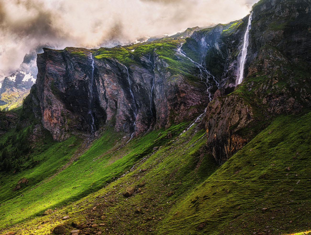 Waterfalls and cliff at Pian della Mussa, Piedmont, italy